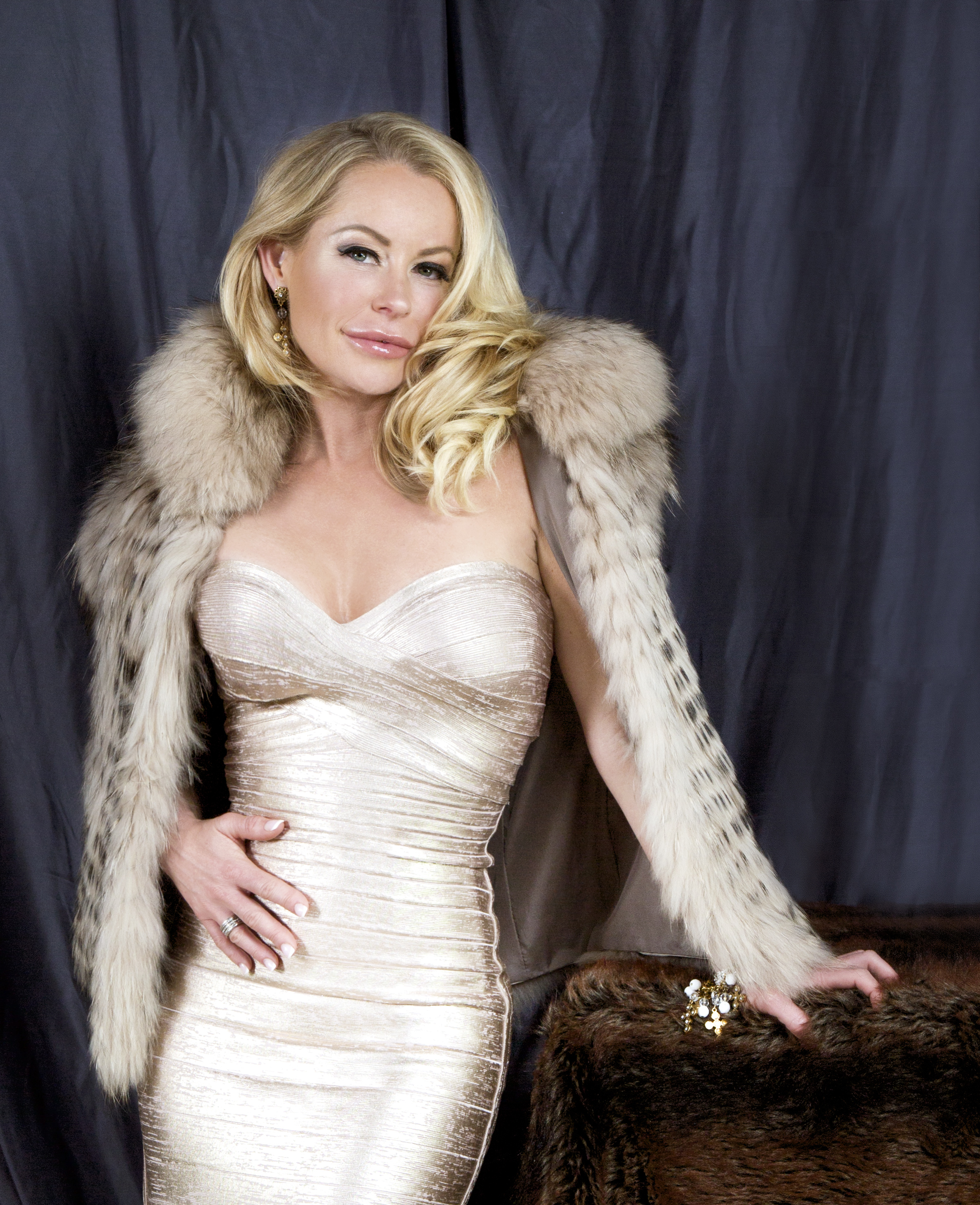 Åsa Vesterlund.